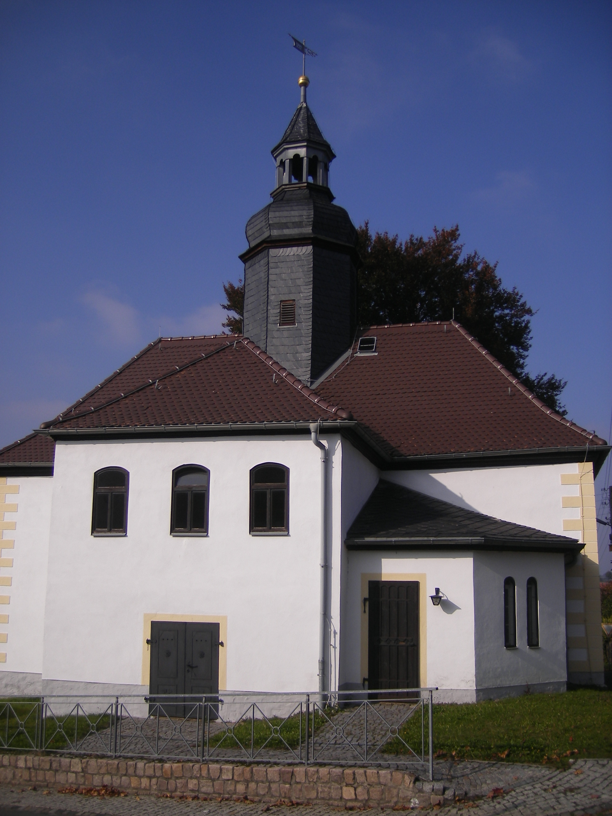 The church in Sommeritz near Schmölln/Thuringia in Germany